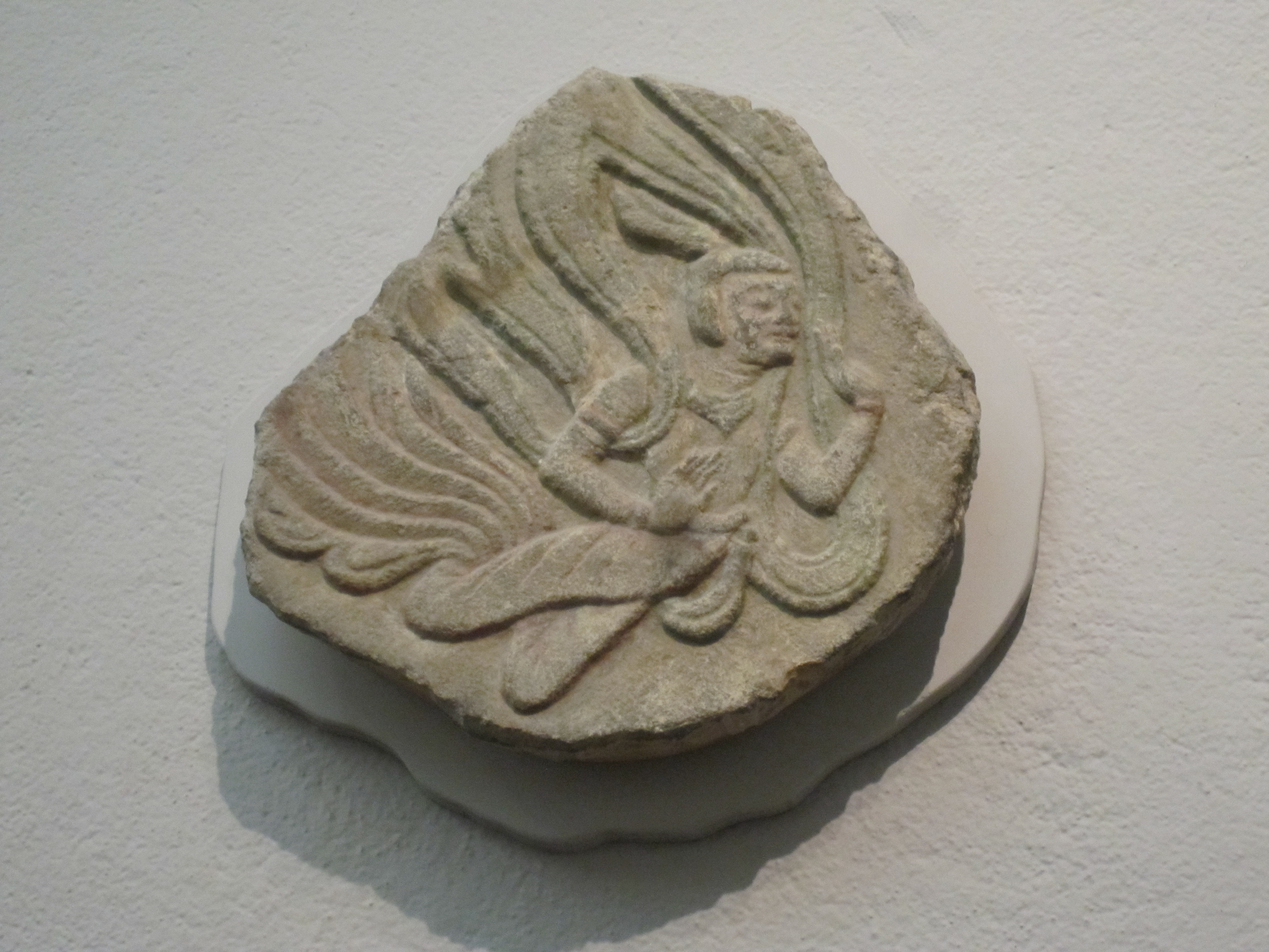 Feitian apsaras (flying celestial figurine). China, Tang Dynasty. From the caves at Tianlong Shan. Taiyuan, Shanxi Province. Sandstone. Accession number 39.533. More information at .